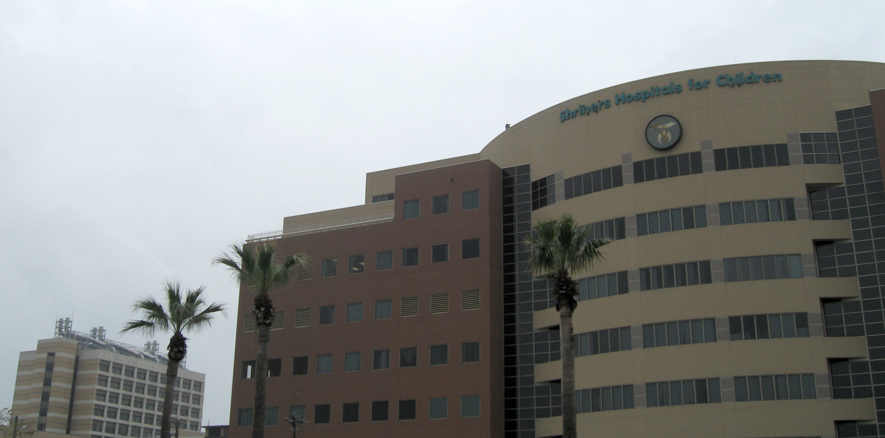 Shriner's Hospital for Children on UTMB's campus in Galveston, Texas. Taken on March 16, 2006 by Laura Scudder.